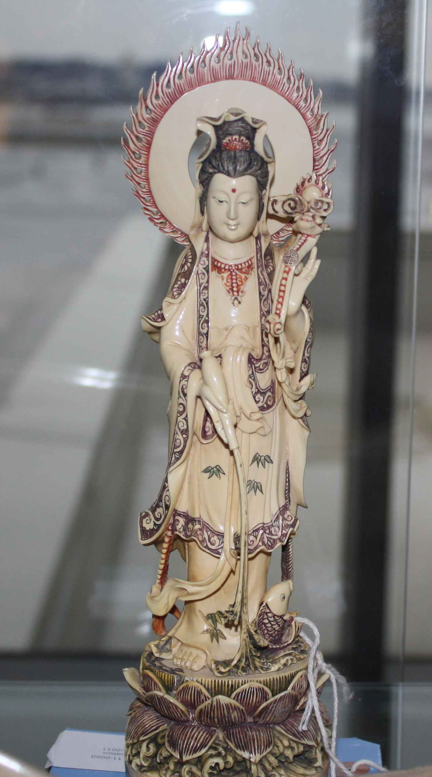 Image title: Elephant ivory statue Image from Public domain images website